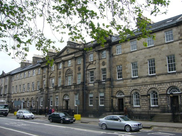 North side of Charlotte Square Houses designed by Robert Adam and built in the last decade of the 18th century. The entire street frontage has a symmetrical unity. The plan to mirror this on the south side of the square was not adhered to after Adam's death in 1794.